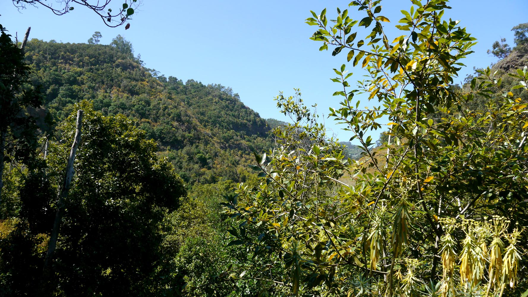 'Los Tilos de Moya. Last redoubt of the laurisilva forest in Gran Canaria, Spain.